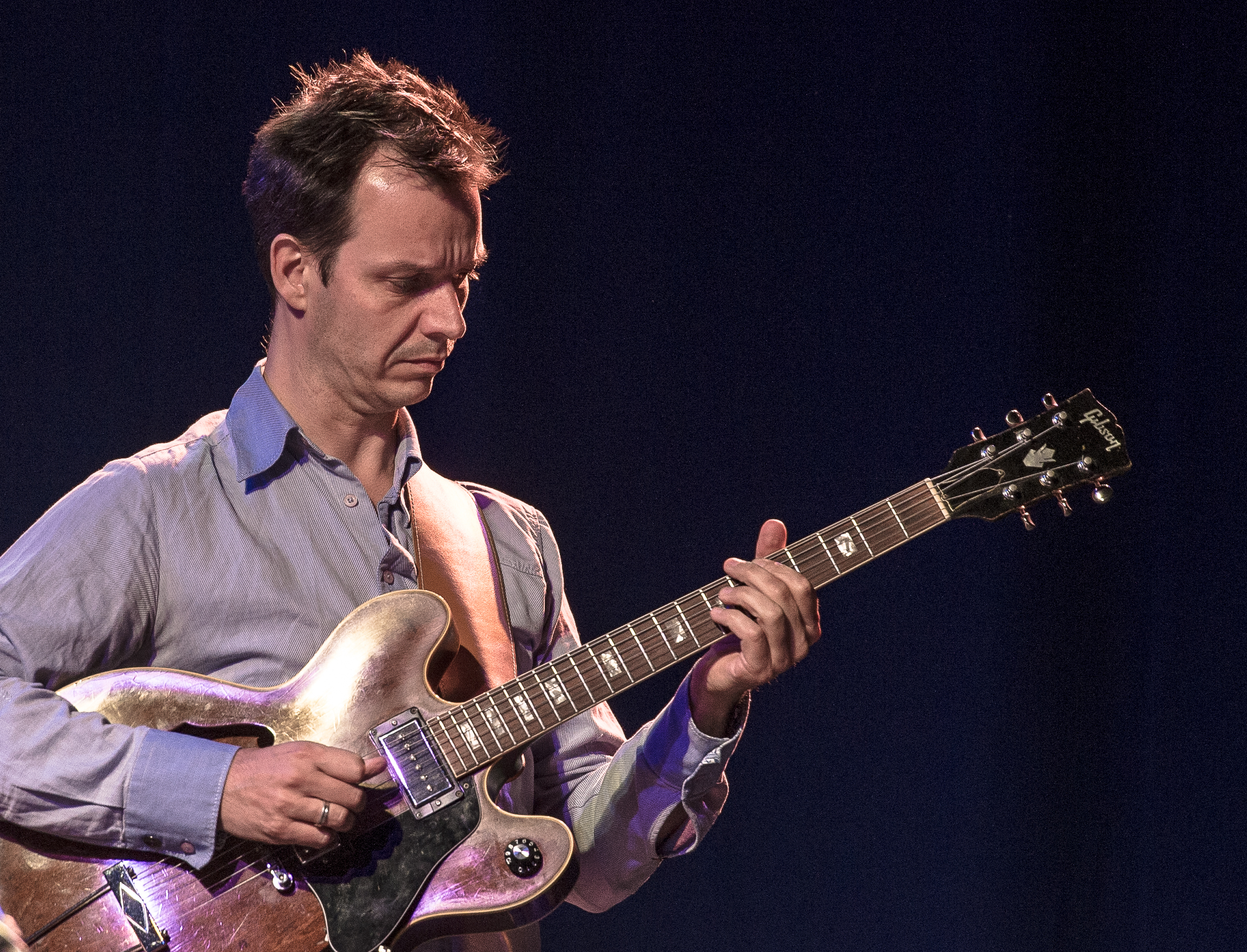 Jesse van Ruller @ Jazz im Palmengarten Frankfurt, 03.09.2015